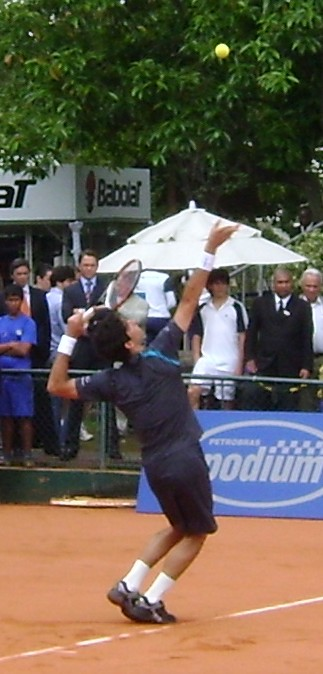 Thomaz Bellucci at São Paulo Challenger